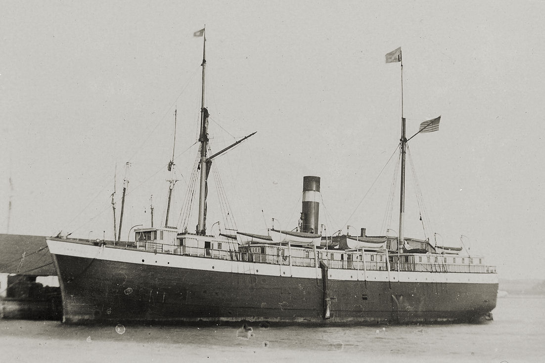 SS Carroll in Charlottetown harbour about 1893.